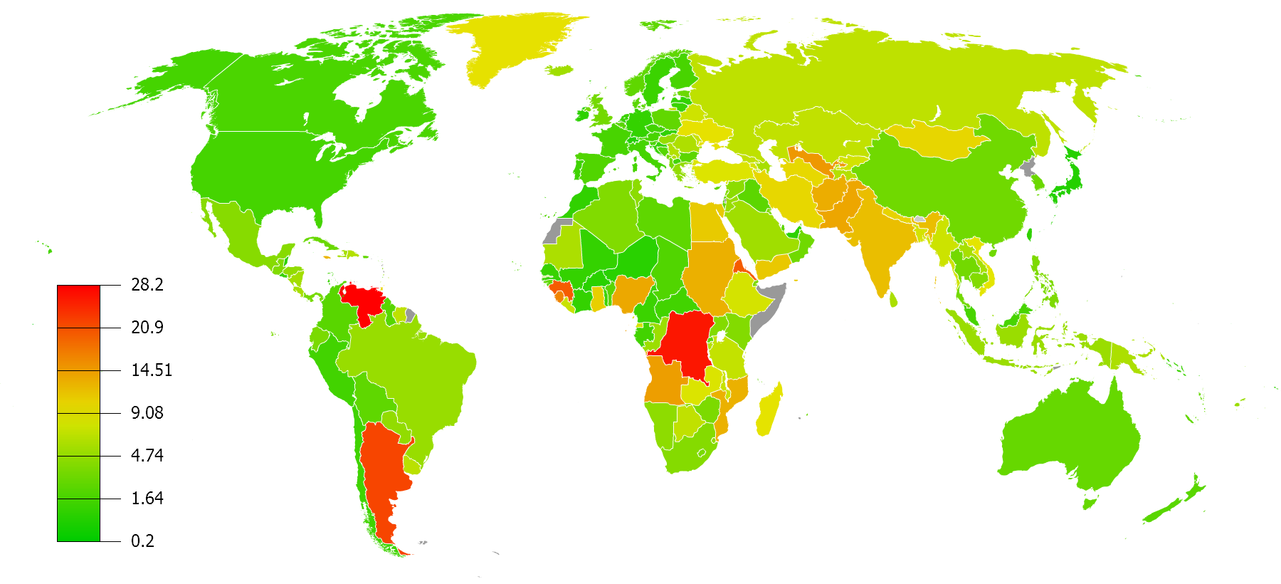 World map showing 2010 inflation rates. Data from CIA factbook.